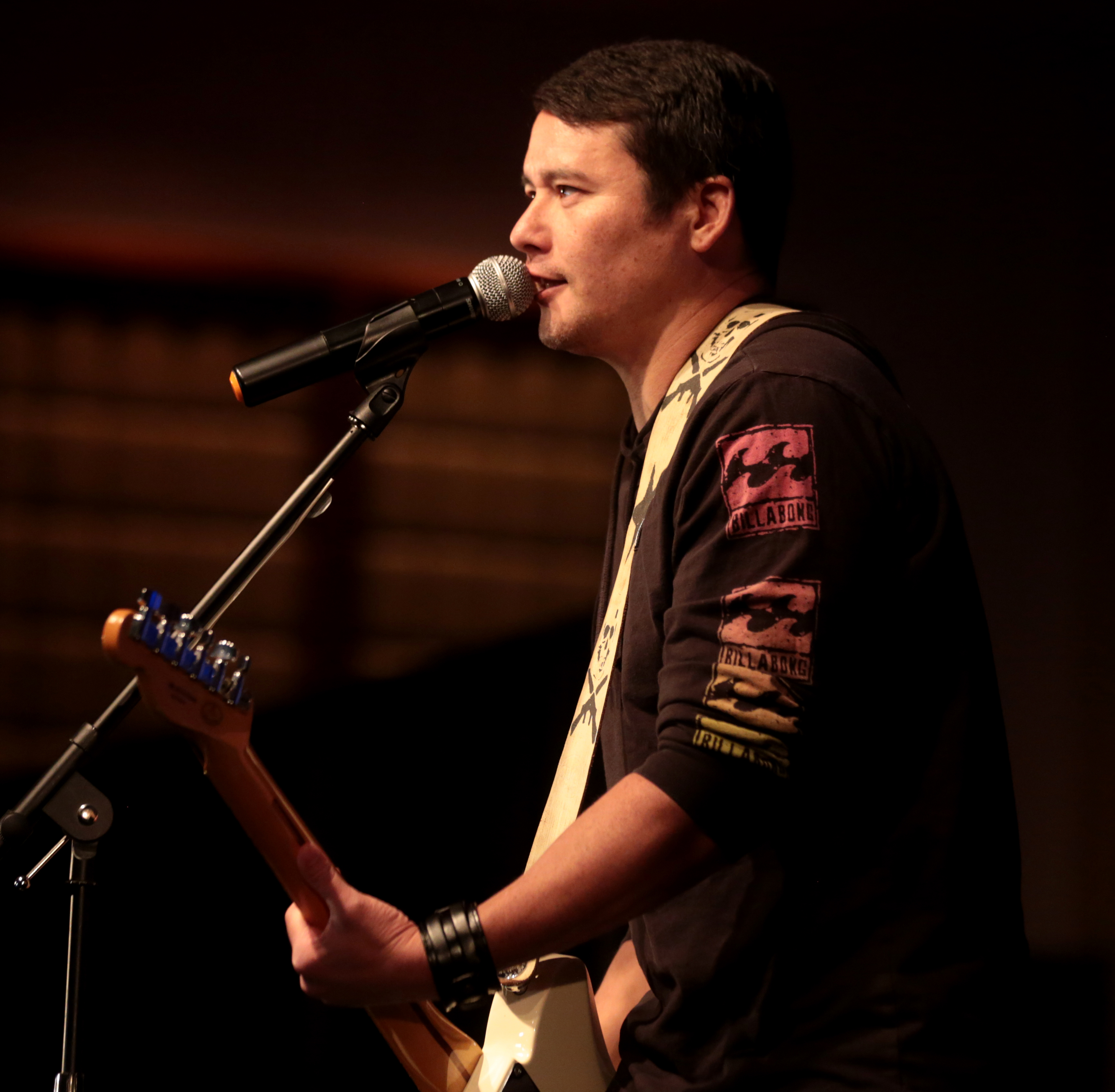 Johnny Yong Bosch performing at an event in Phoenix, Arizona.